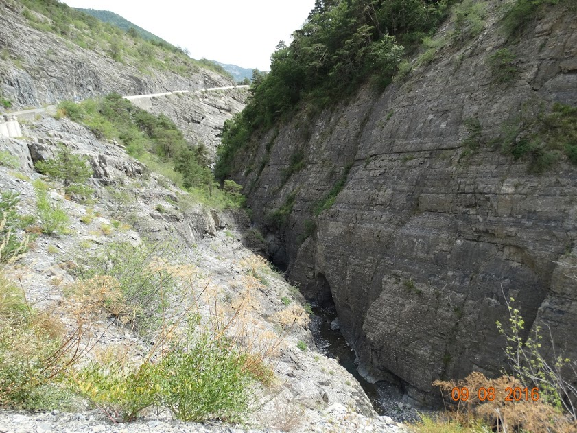 Canyon